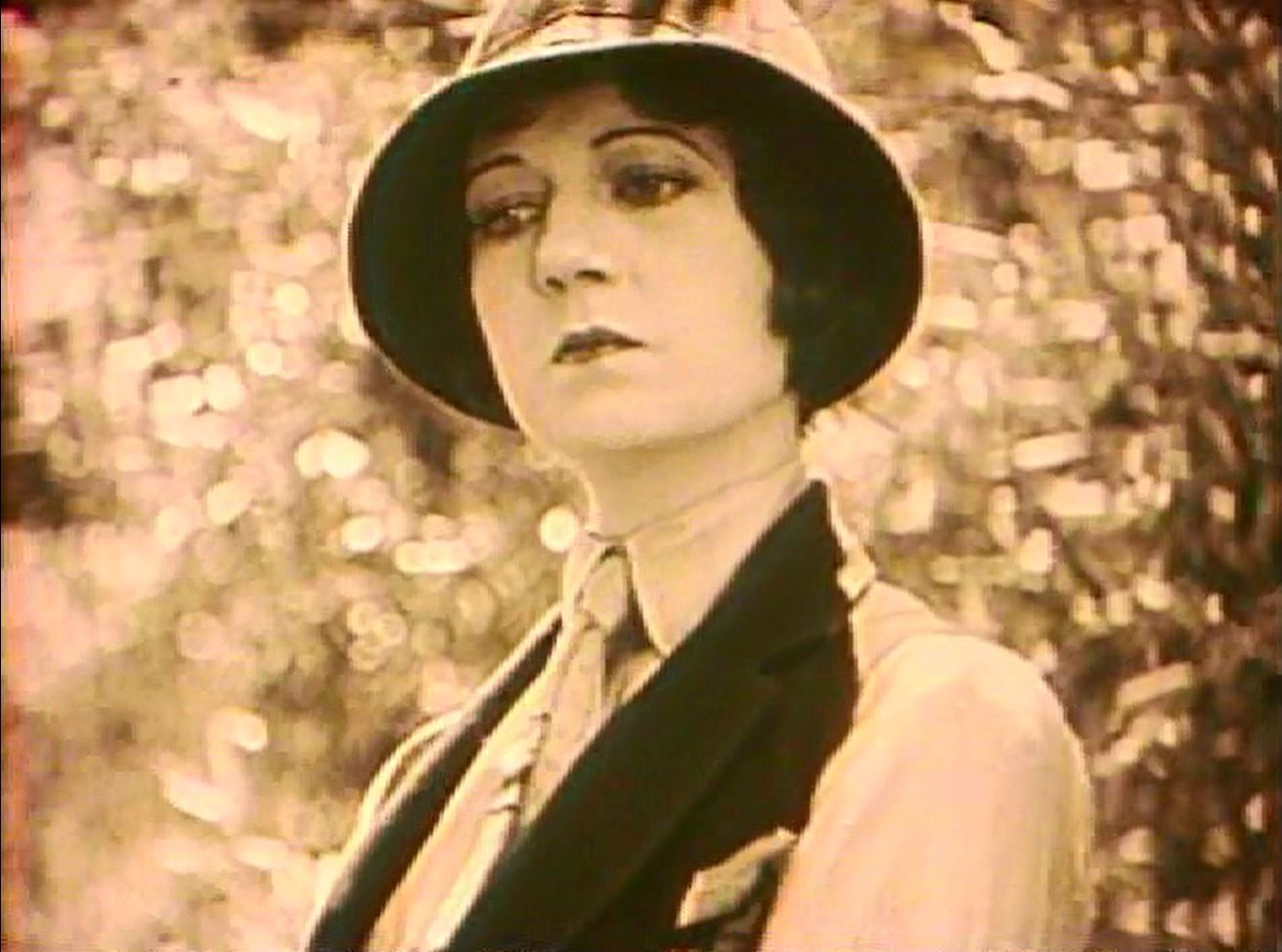 Low resolution screenshot of Peggy Montgomery as Dolly Martin in the American public domain western film Arizona Days (1928).